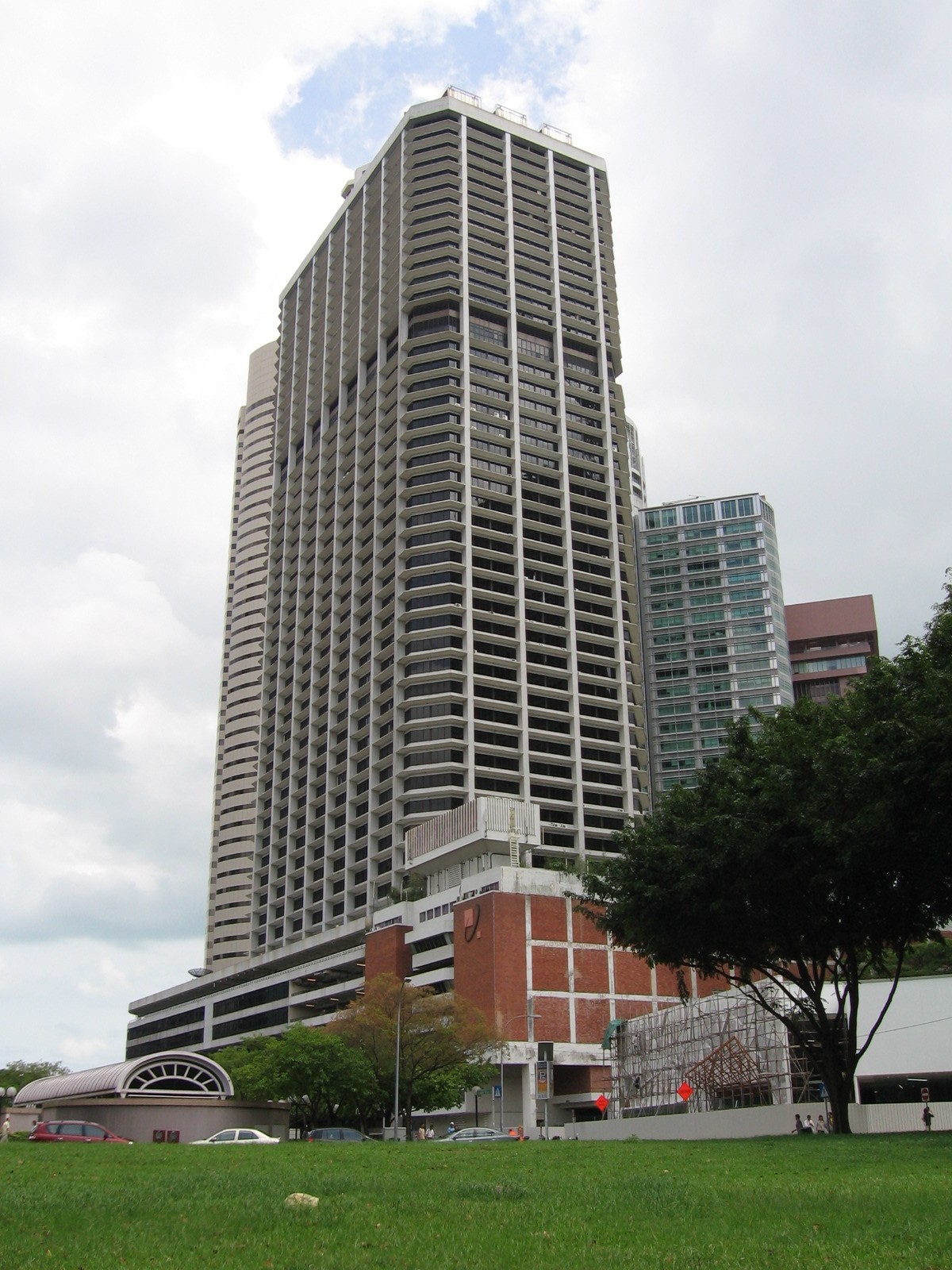 International Plaza. Taken by User:Sengkang of ENglish.Wikipedia in Jan 2006.